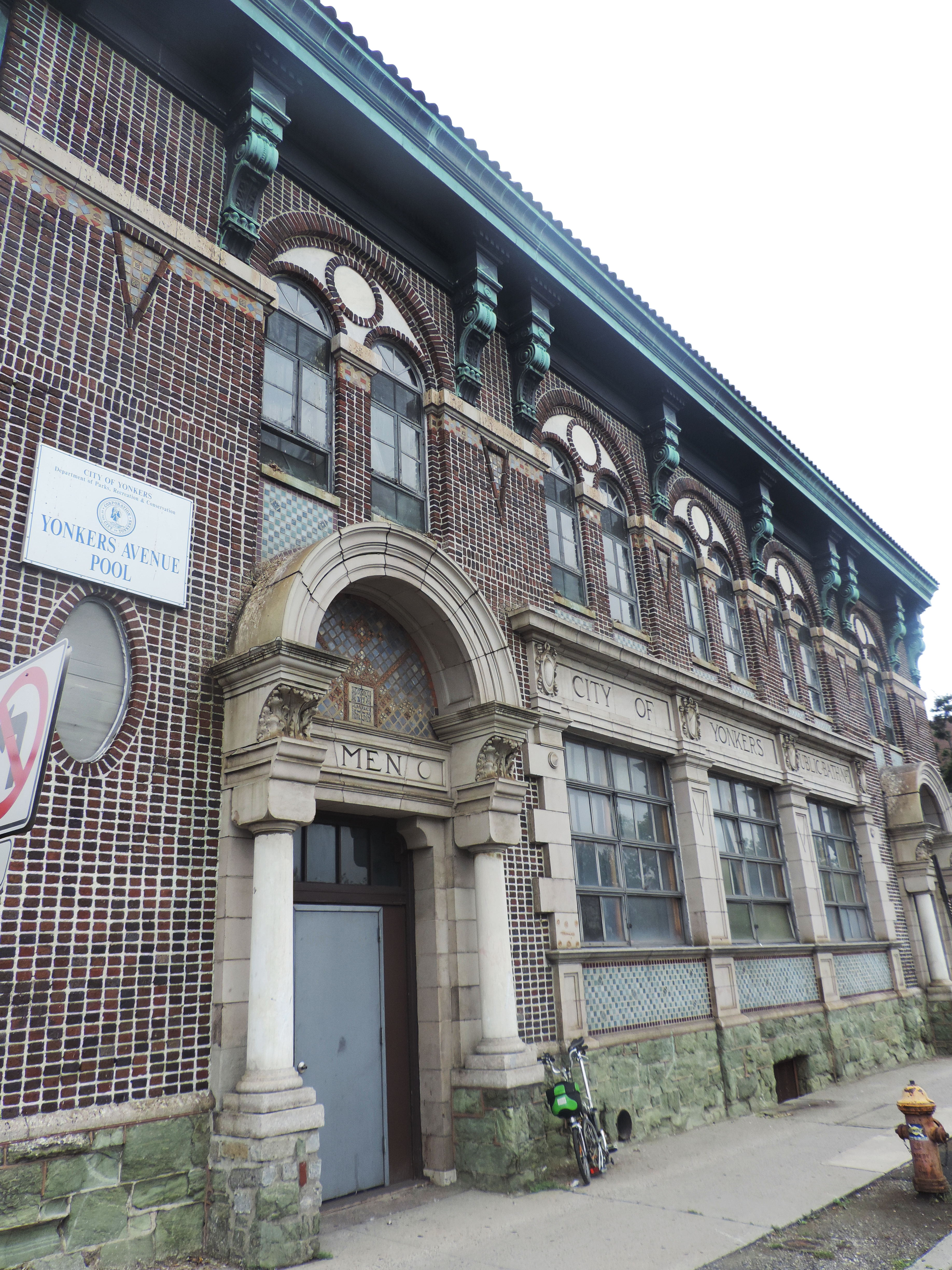 Looking west from corner on a cloudy midday.